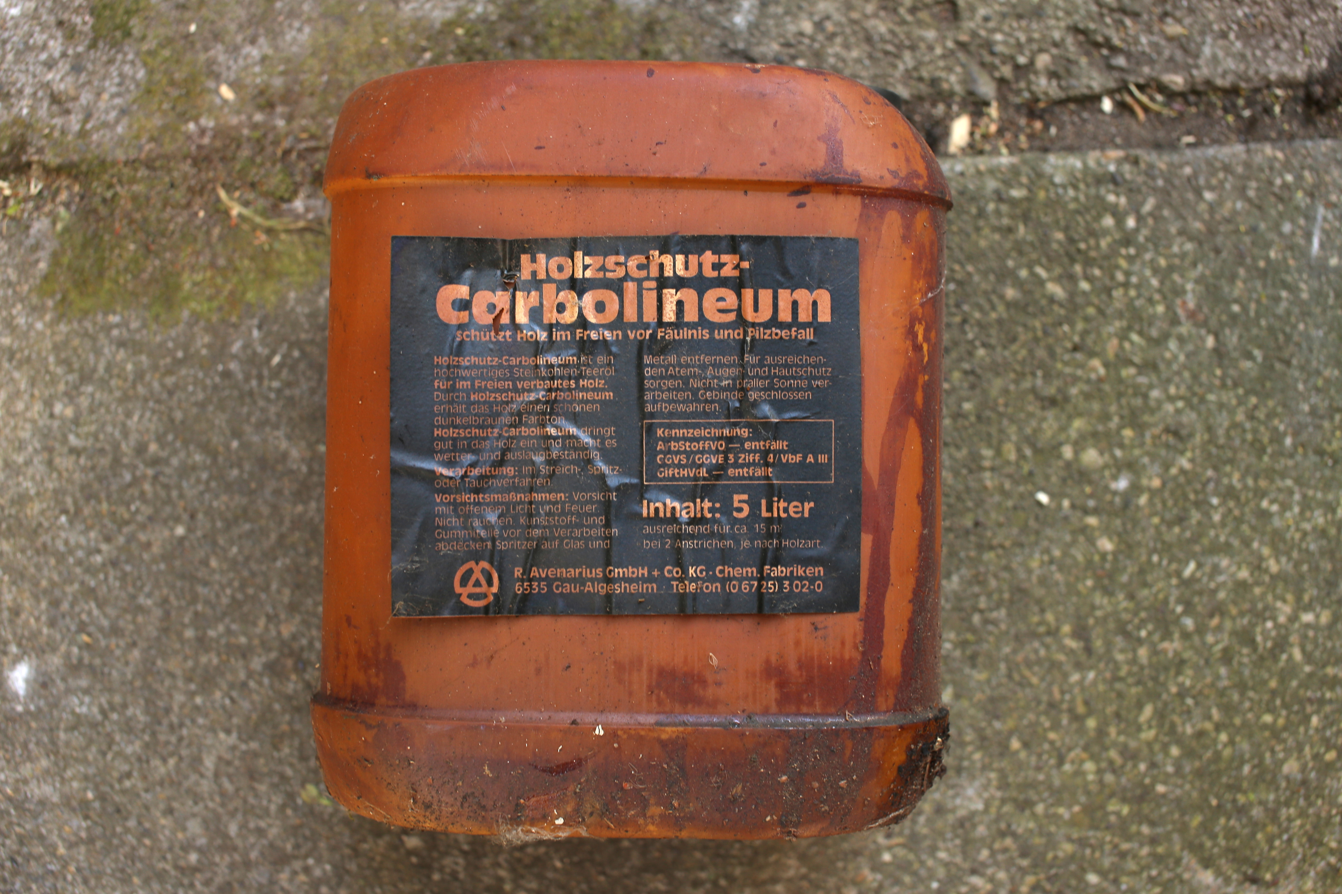 Carbolineum wood preservative 5l canister